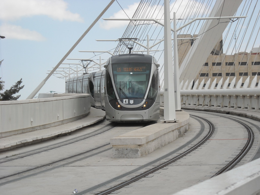 Jerusalem Light Rail on Jerusalem Chords Bridge